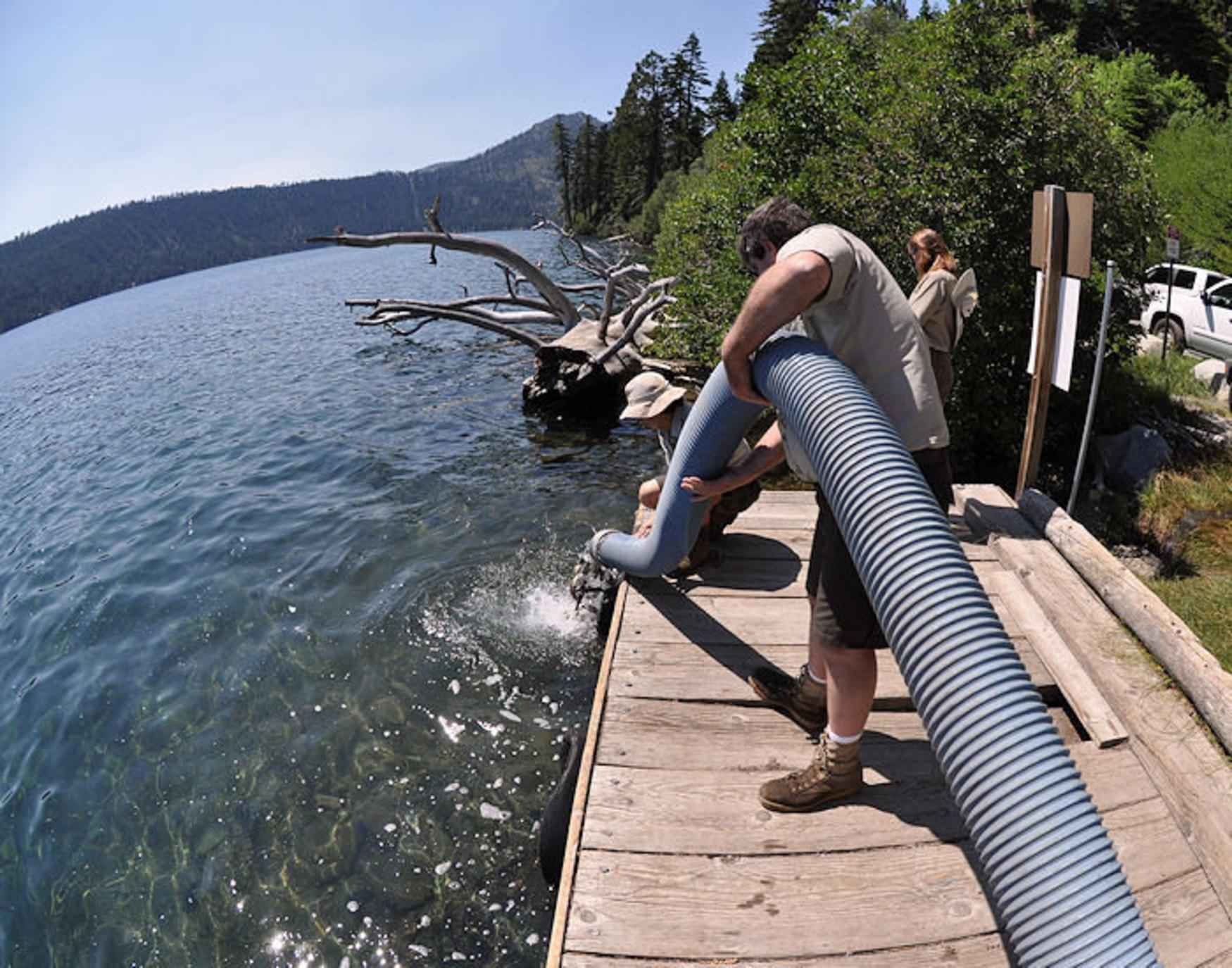 Image title: Cutthroat trout Image from Public domain images website